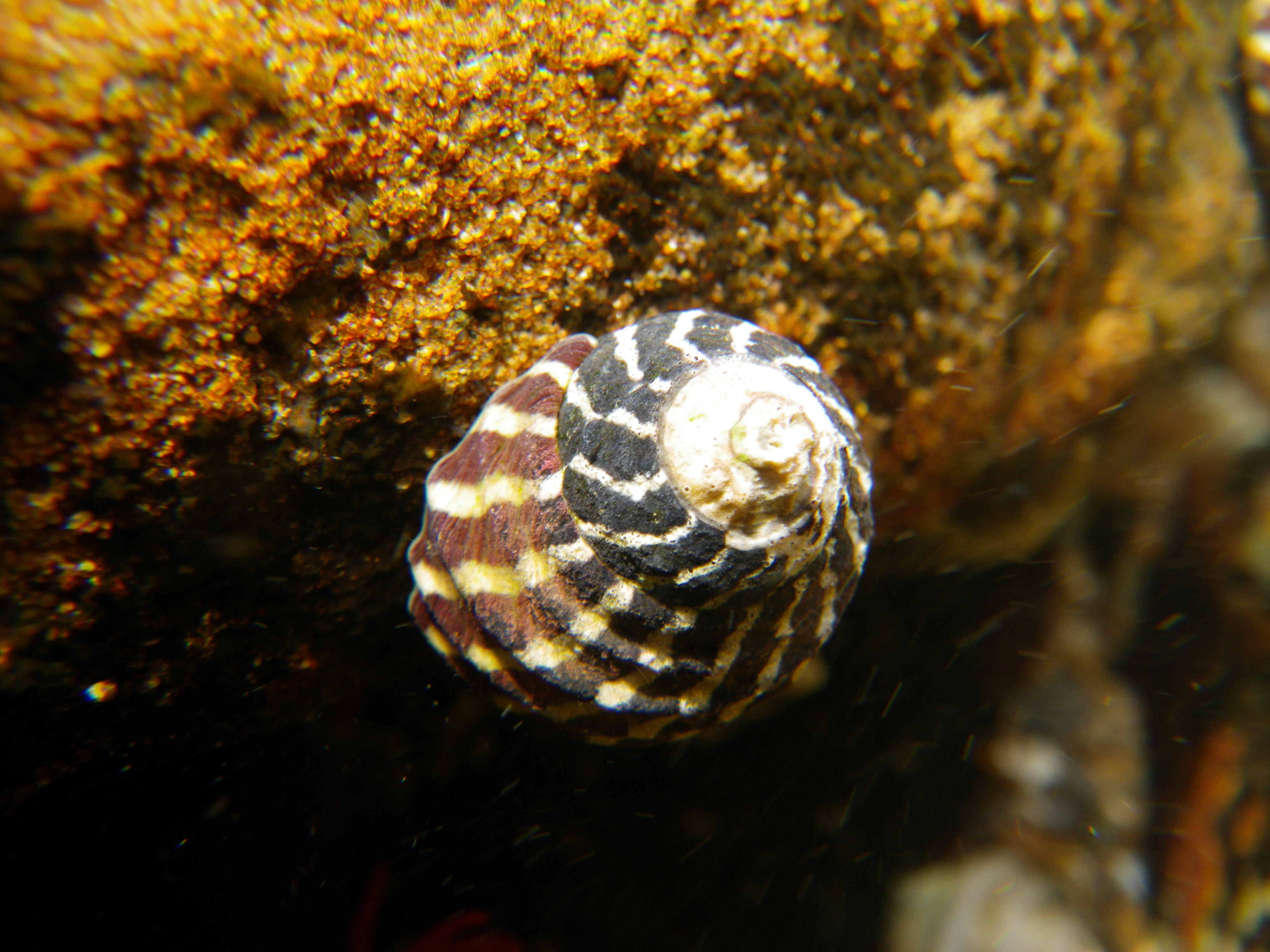 Zebra snail Austrocochlea porcata variant with wide white stripes. Located in the rock pools of MacMasters Beach, NSW, Australia.